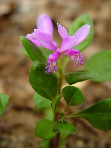 Gaywings, polygala paucifolia, taken at the Botanical Gardens at Asheville, Asheville, NC by zen sutherland